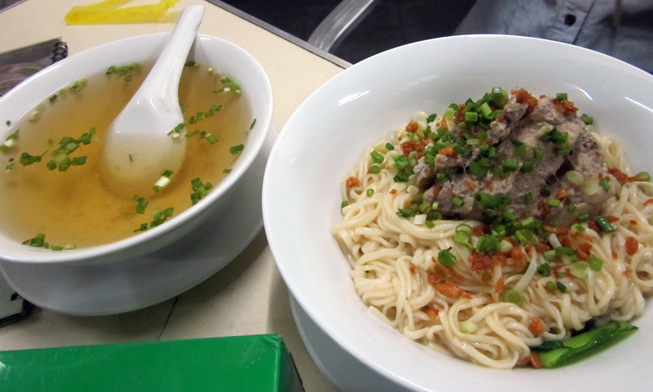 Si gyet khauk swe at Yangon's YKKO မြန်မာဘာသာ: ရန်ကုန်မြို့ရှိ YKKO ဆီကြက်ခေါက်ဆွဲ